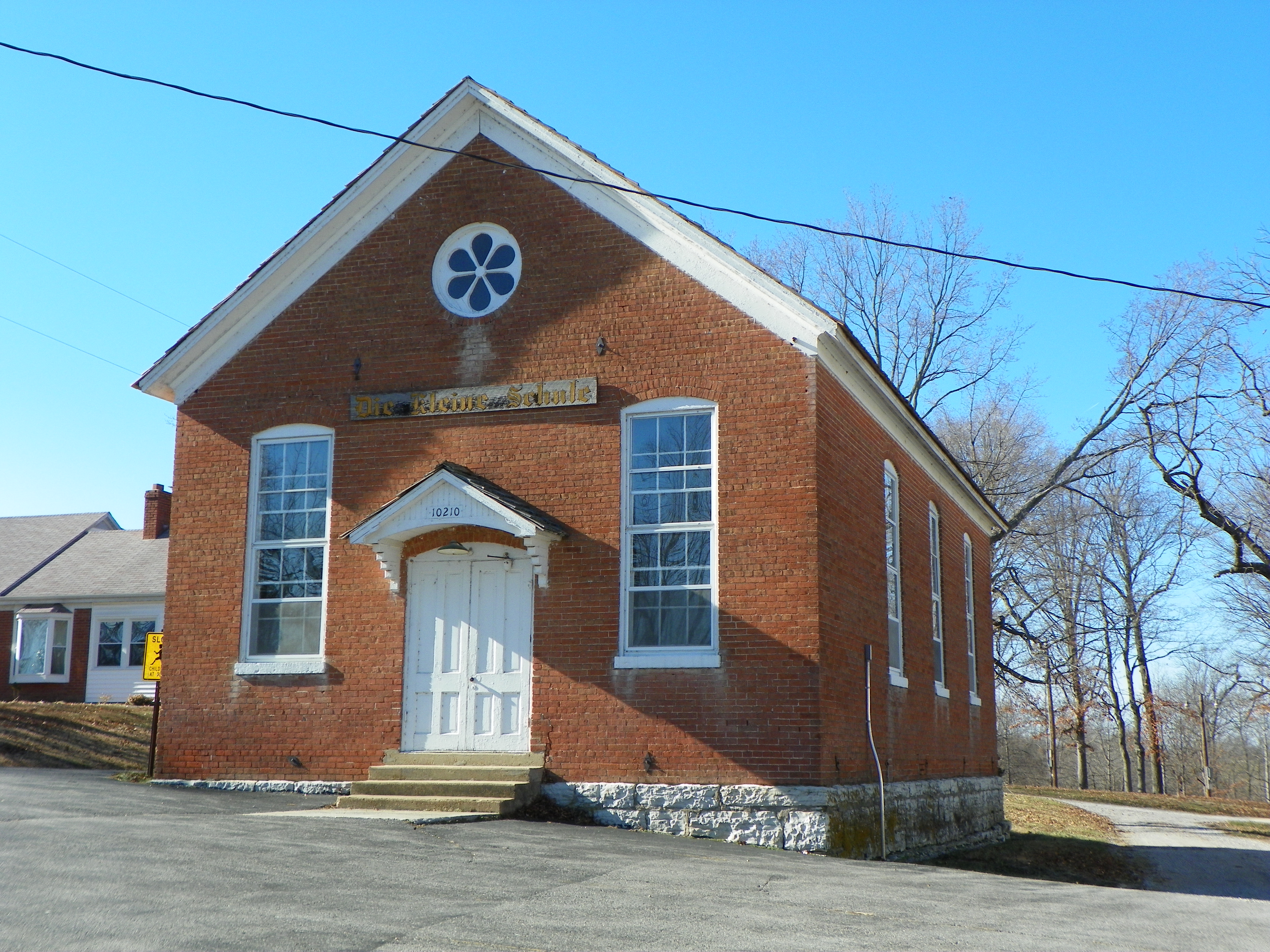 Frohna, Missouri, die kleine Schule - the little German school